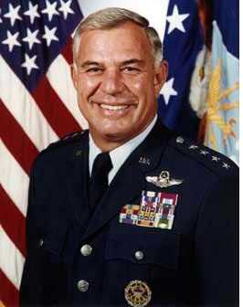 John G. Lorber from [1]